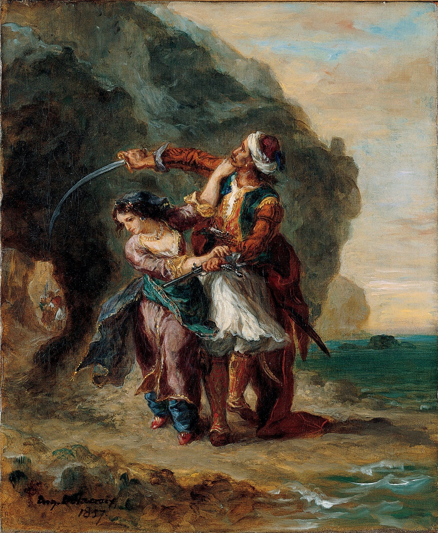 The painting depicts Selim and Zuleika from Lord Byron's poem The Bride of Abydos